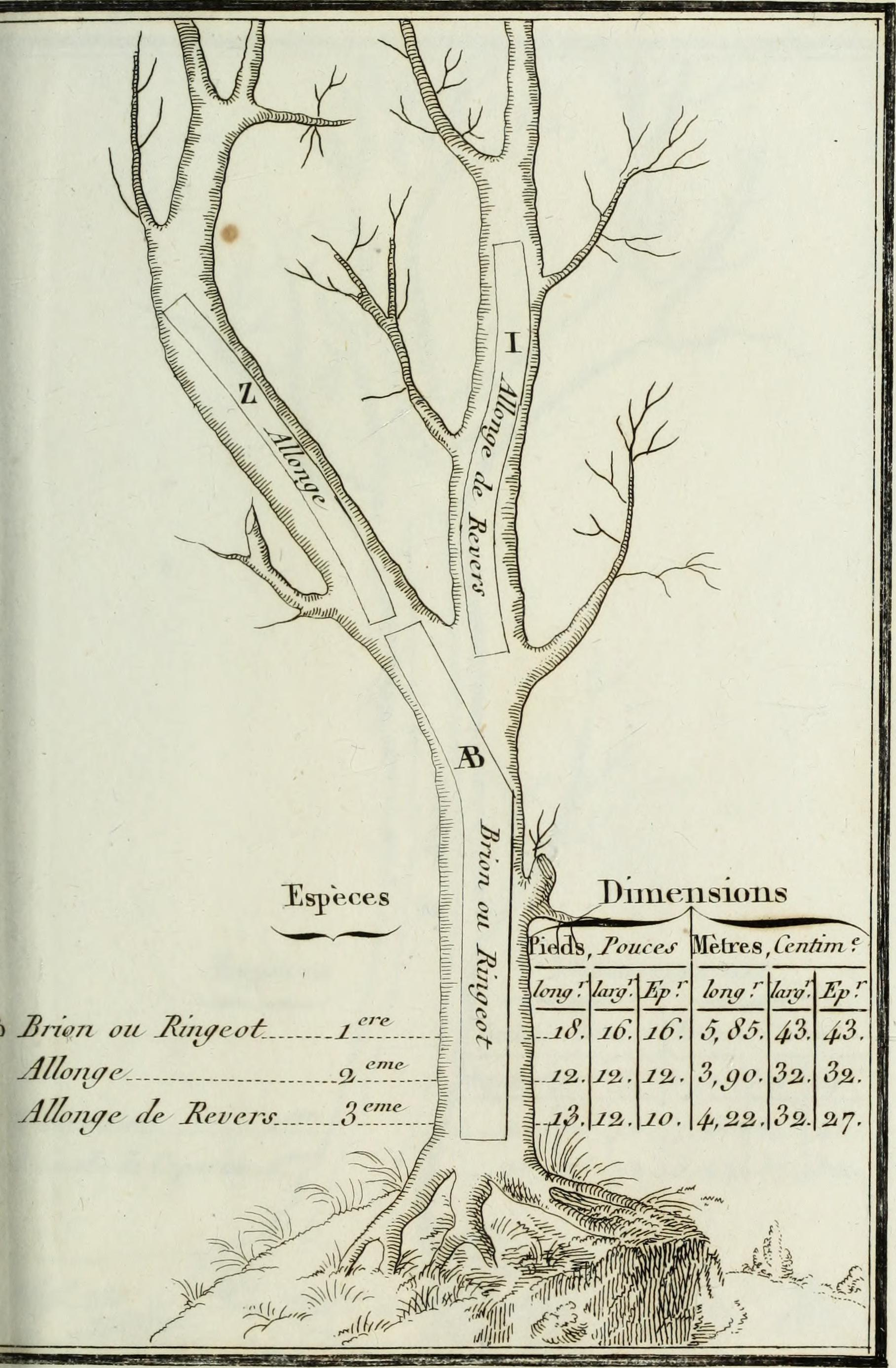 Title: Manuale ad uso degli agenti dei boschi e della marina ... Year: 1807 (1800s) Authors: Goujon, Louis Joseph Marie Achille, 1746-1810 Cavagna Sangiuliani di Gualdana, Antonio, conte, 1843-1913, former owner. IU-R Subjects: Shipbuilding Naval art and science Publisher: Milano : Stamperia reale Text Appearing Before Image: PL %. Text Appearing After Image: '